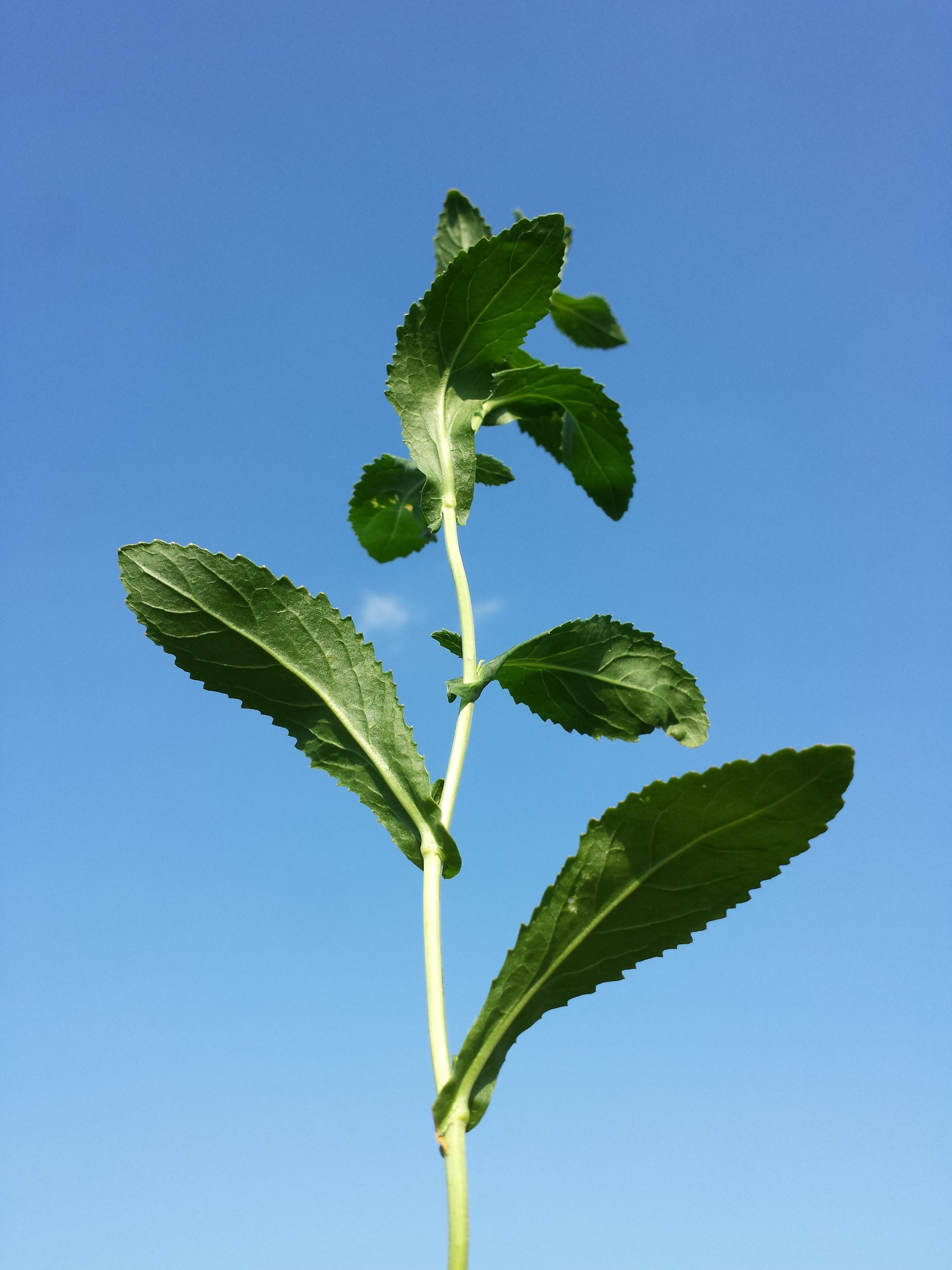 Stem with leaves Taxonym: Rorippa austriaca ss Fischer et al. EfÖLS 2008 ISBN 978-3-85474-187-9 Location: Donaupark, Vienna-Donaustadt - ca. 160 m a.s.l. Habitat: ruderal, dry meadows